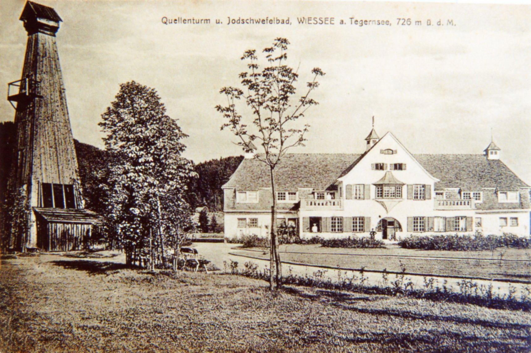 Postcard of the iodine-sulfur bath in Bad Wiessee with derrick no.3, Title: "Quellenturm u. Jodschwefelbad WIESSEE a. Tegernsee, 726 m.ü.d.M", ca.1912